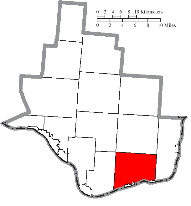 Map of the municipal and township boundaries of Lawrence County, Ohio, United States, as of the 2000 census, with the location of Union Township highlighted. Township borders are shown only in unincorporated areas in order to differentiate incorporated and unincorporated areas more clearly.